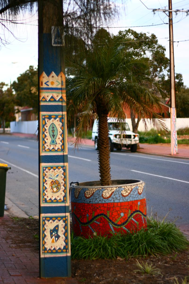 Brompton, Adelaide, Australia - painted Stobie pole